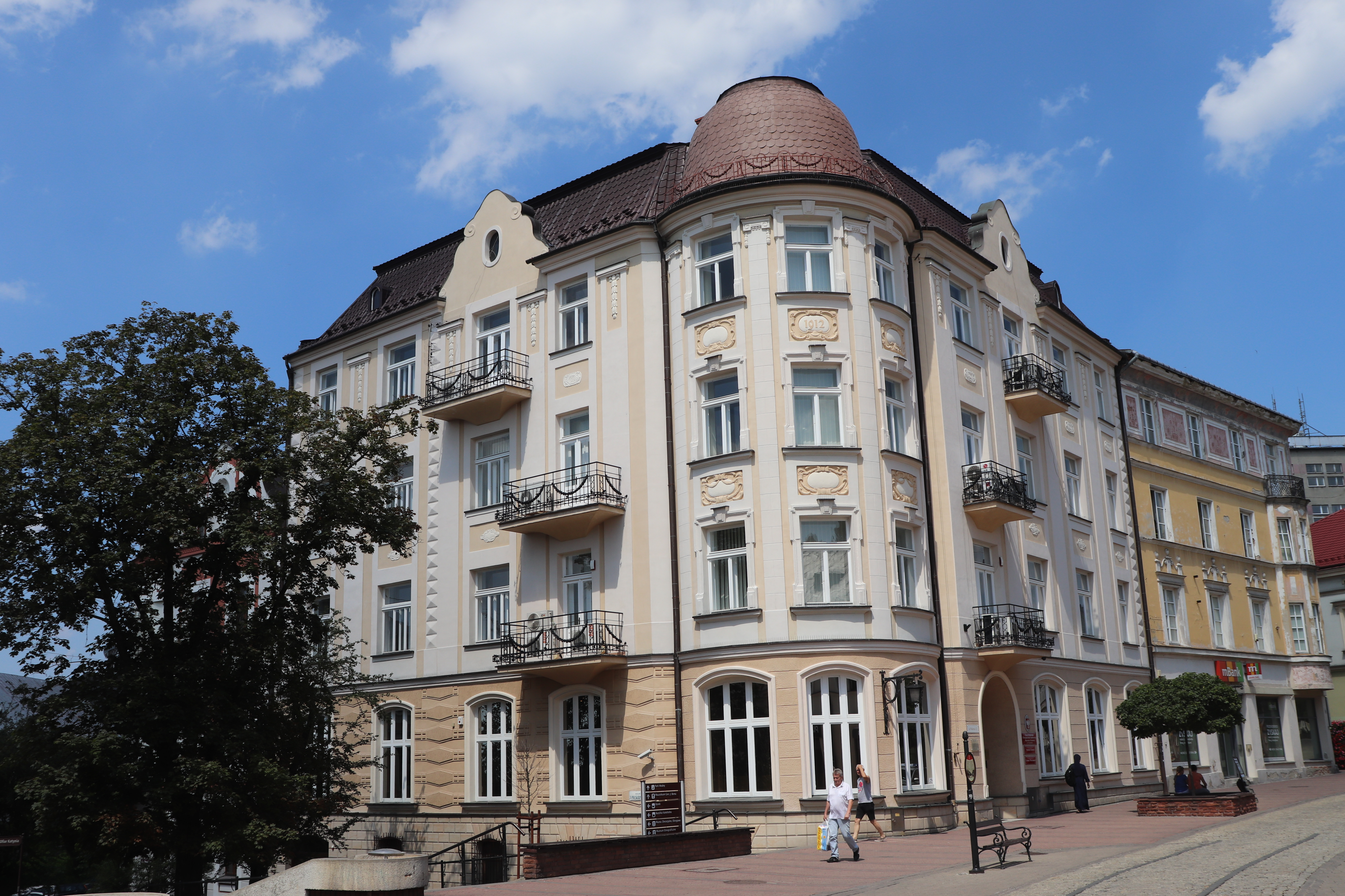 Tarnów - the house at 12 Wałowa str.